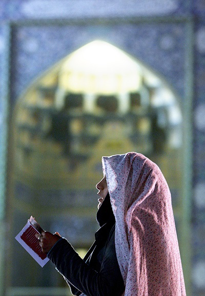 Laylat al-Qadr 19th Ramadan 1431 AH in Qom